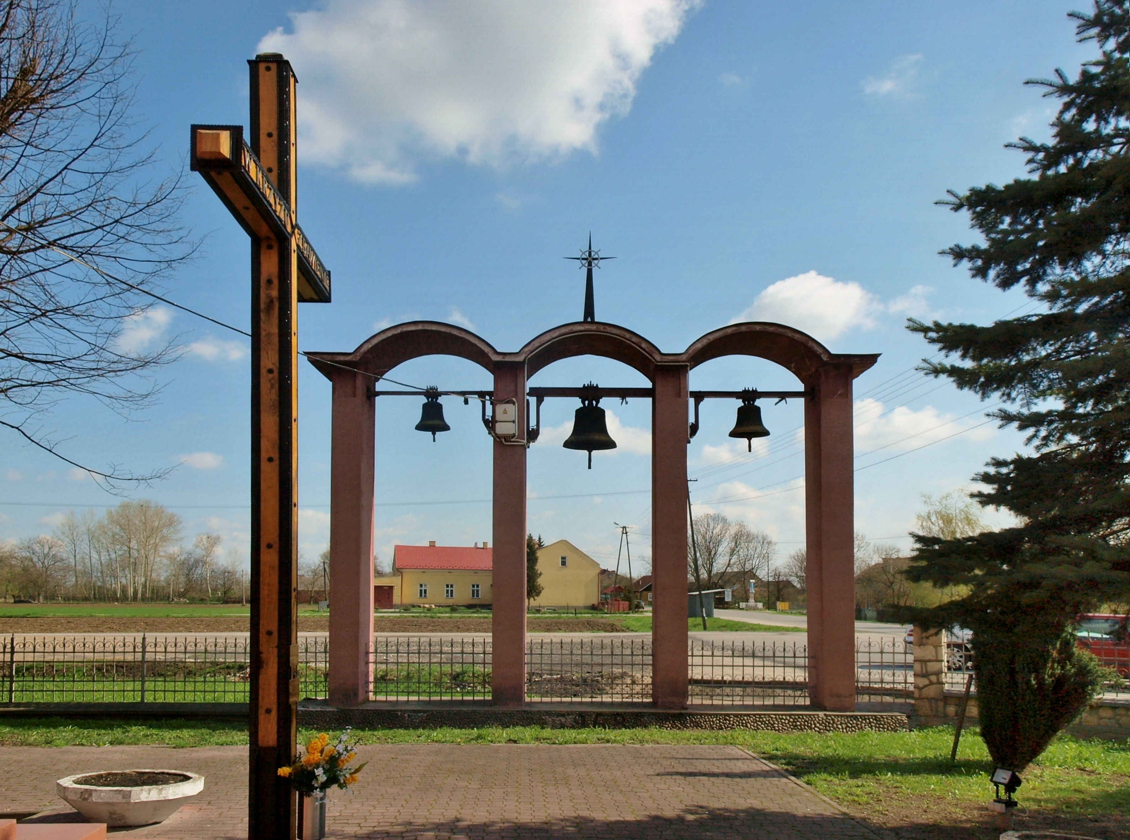 Samocice, courtyard of parish church of St. Bartholomew, belfry